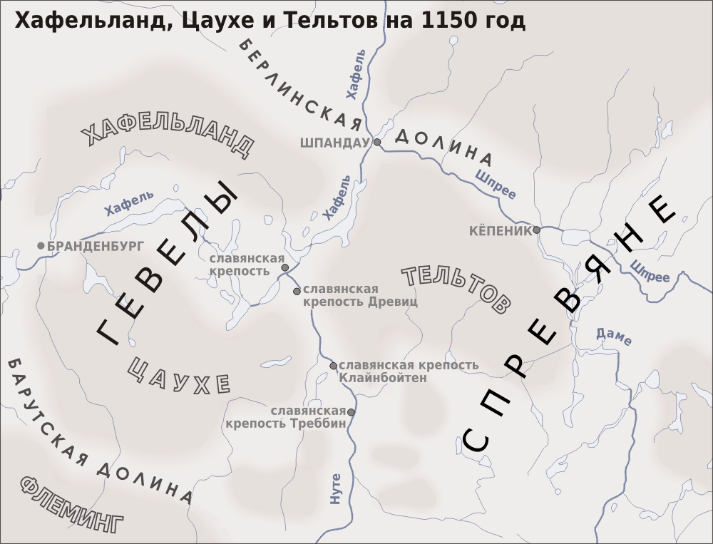 Settlements of the Slawic tribes in the Nordmark about 1150